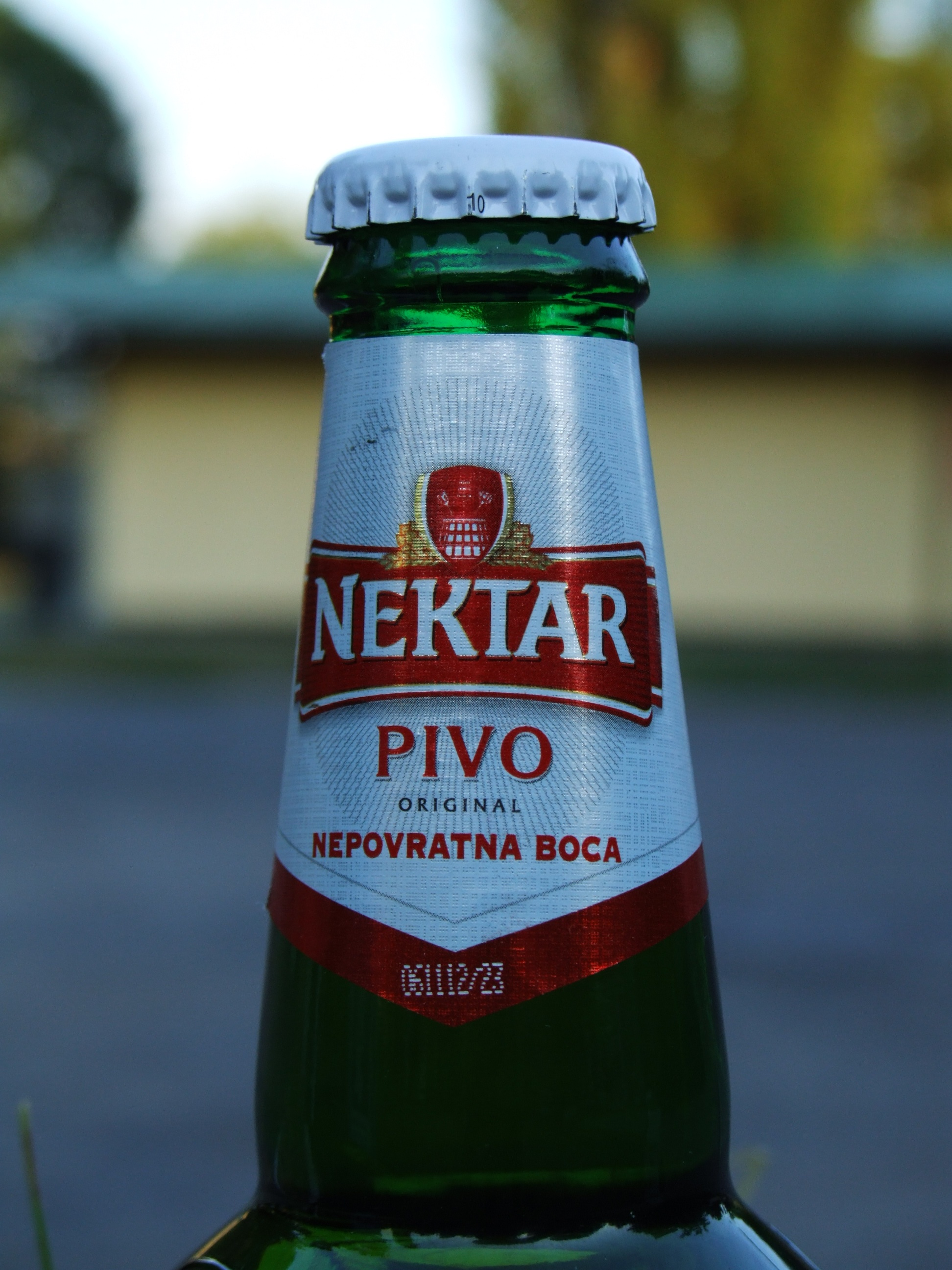 Beer Nektar from Banja Luka, Bosnia and Hercegovina